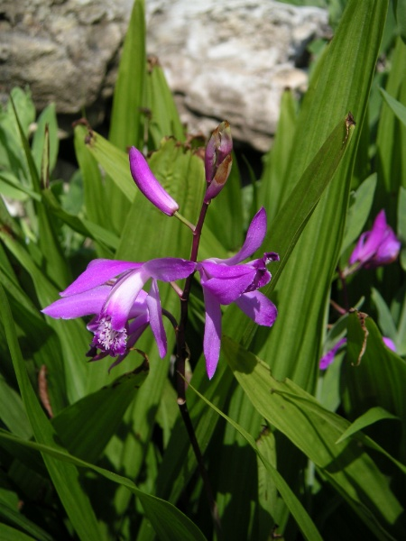 Personnal collection